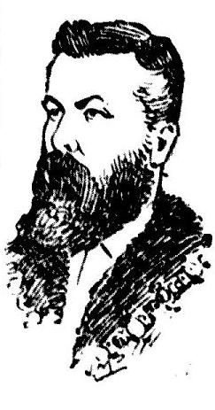 William Honeyfield - Sketch in Welsh Mayors Elect - Western Mail (Cardiff, Wales), Wednesday, November 9, 1892